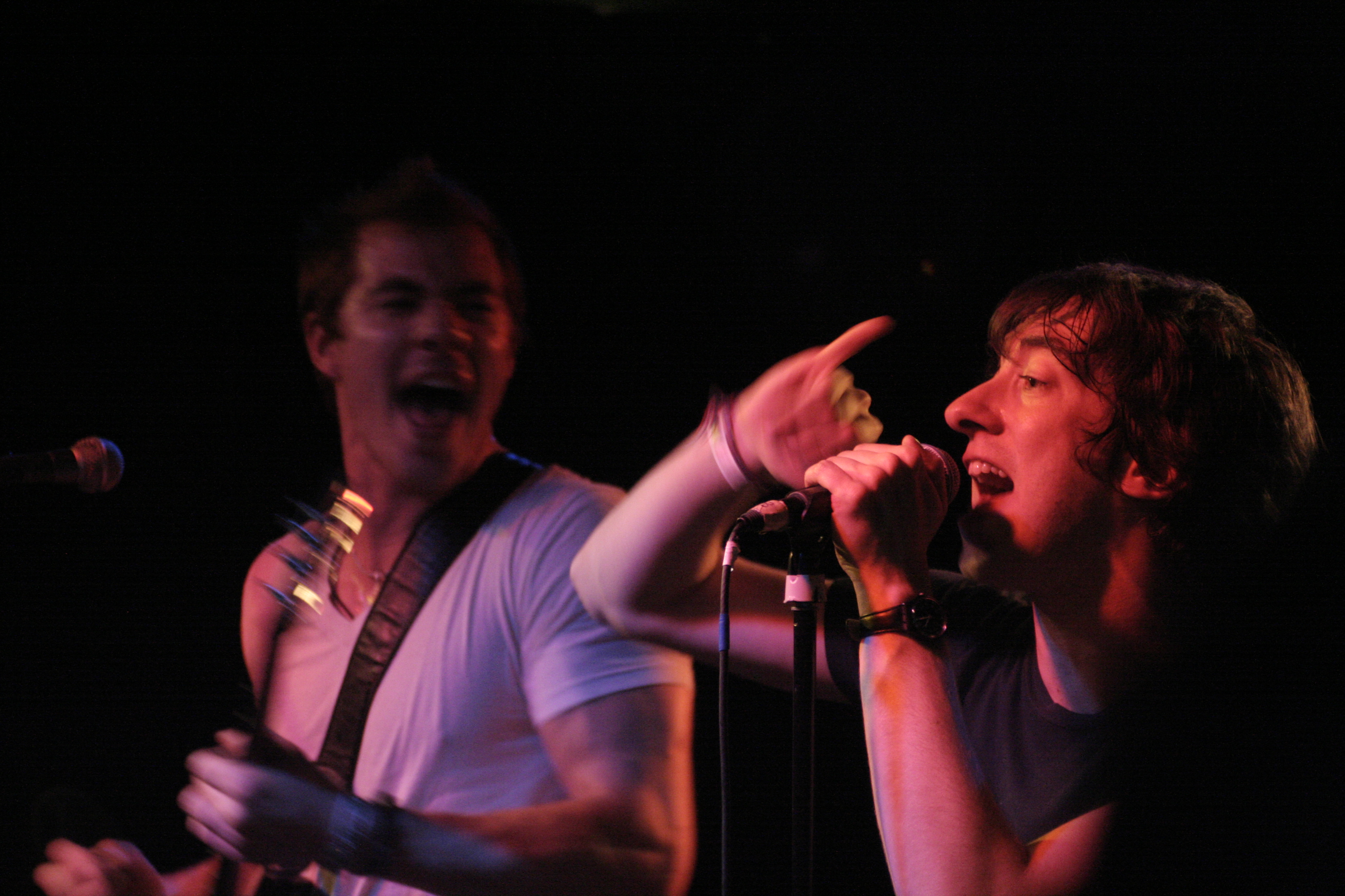 Plain White T's Live in Denver Colorado, March 12th 2007 by Derek Gibbs